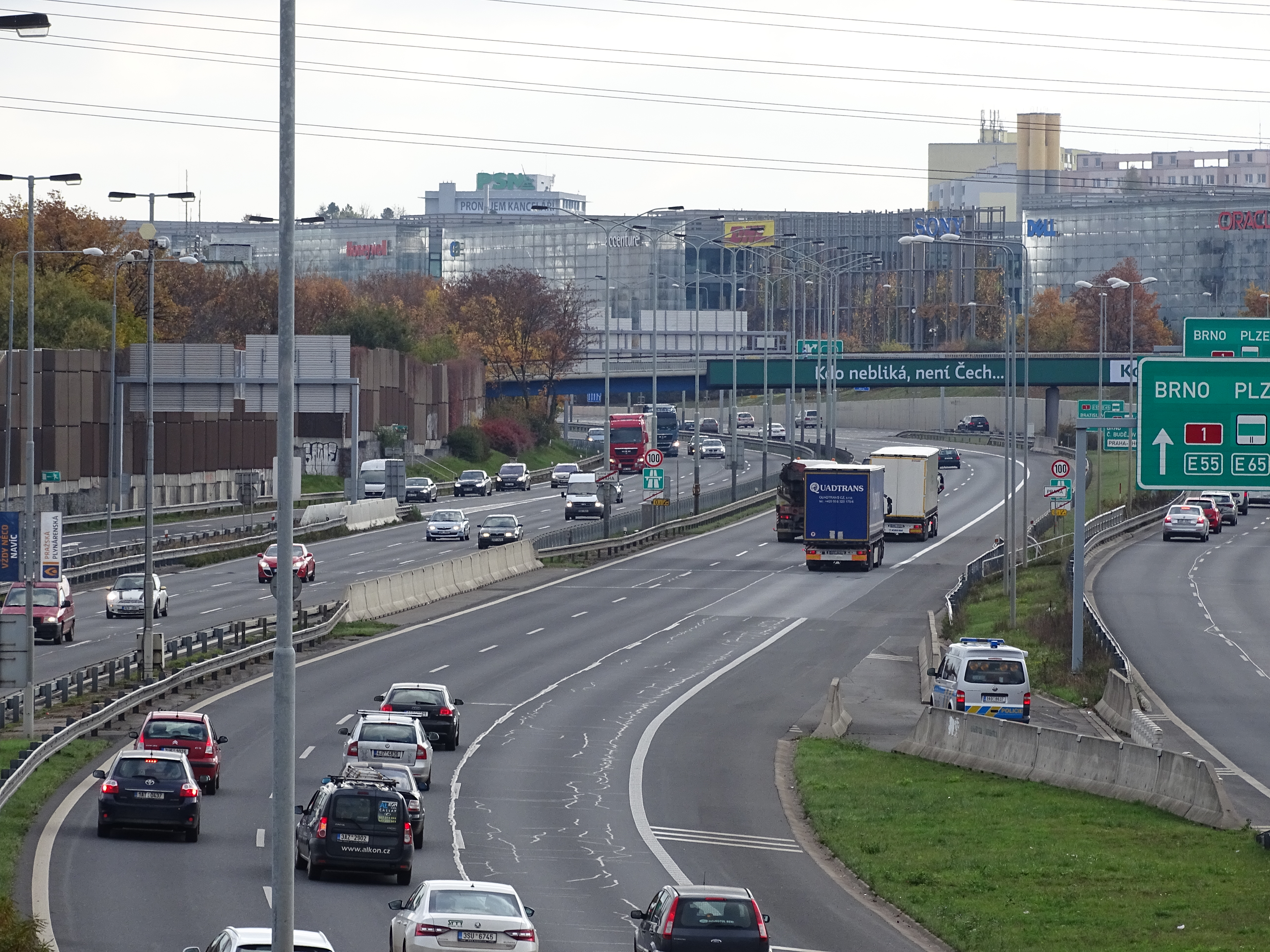 Prague-Chodov, Czechia, 5. května and Brněnská street.